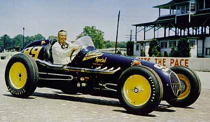 Lee Wallard, winner of the 1951 Indianapolis 500